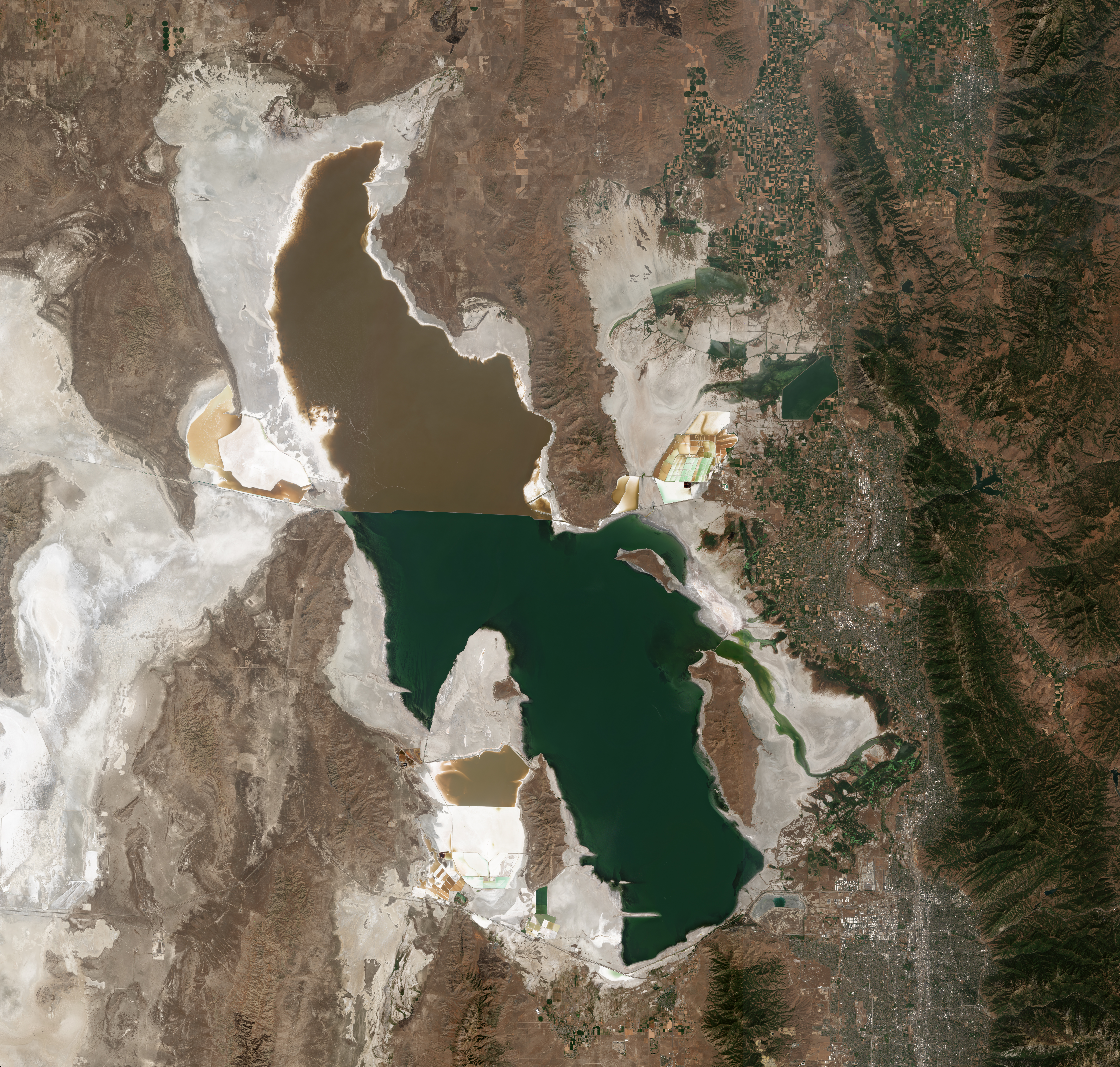 Satellite photo of the Great Salt Lake from August 2018 after years of drought, reaching near-record lows. The difference in colors between the northern and southern portions of the lake is the result of a railroad causeway. The image was acquired by the MSI sensor on the Sentinel-2B satellite (Resolution: 20m, RGB Composites: True color, Band 4-3-2).